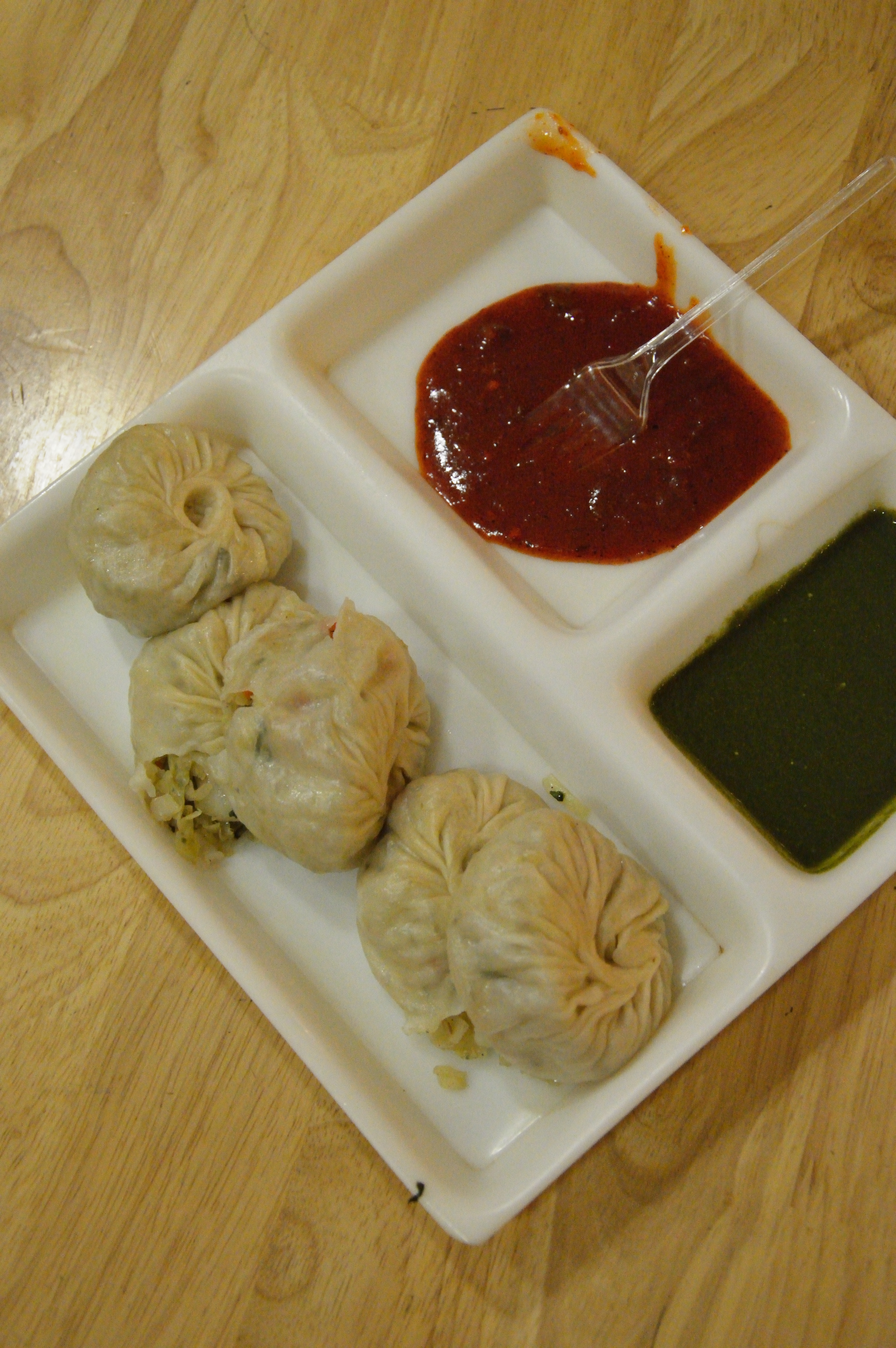 Photographed at greater Kolkata.